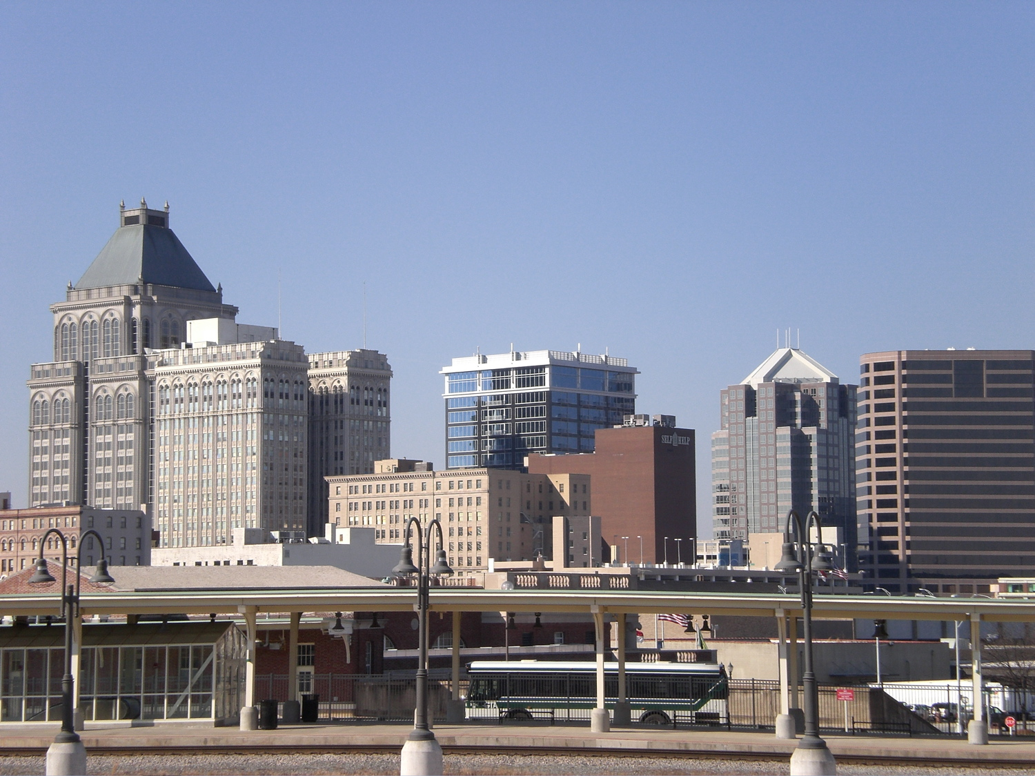 Skyline of Greensboro, North Carolina, United States.